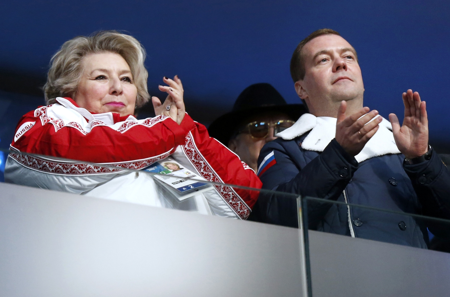 2014 Winter Olympics opening ceremony (2014-02-07)